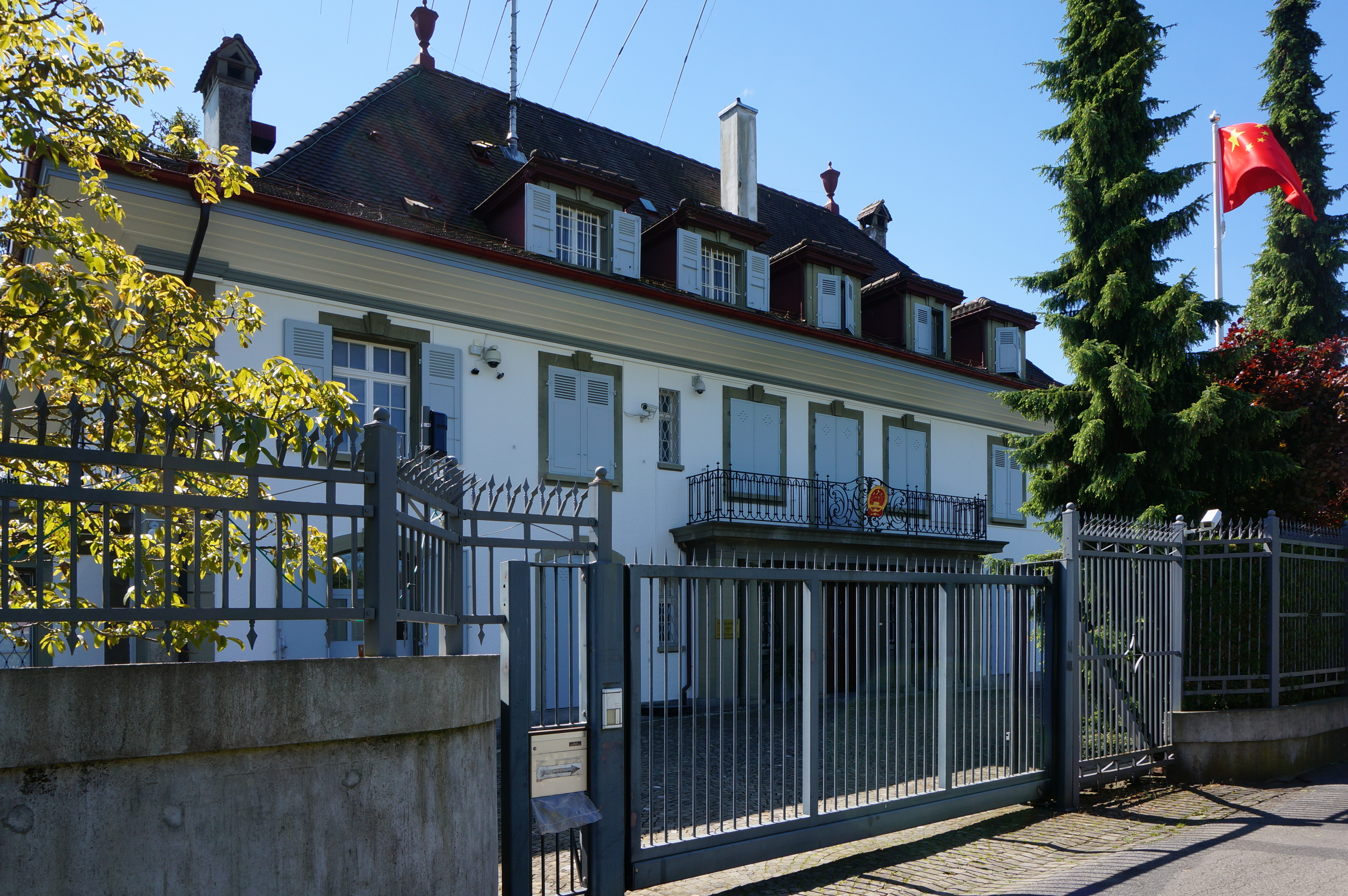 Bern, Kalcheggweg 10. Chinese Embassy in Bern.